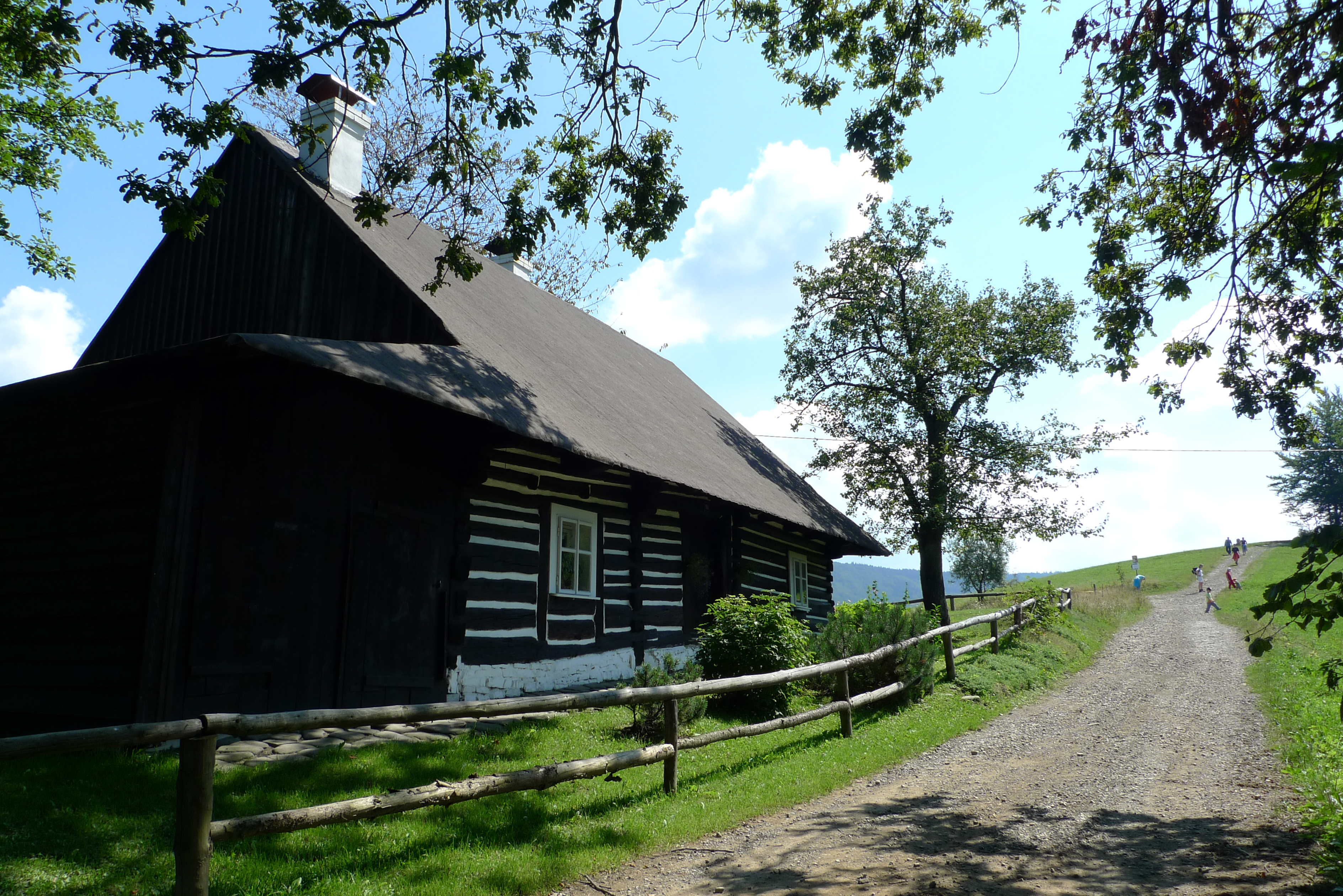 Wooden house Filipka near Nýdek, Silesian Beskids, Czech Republic